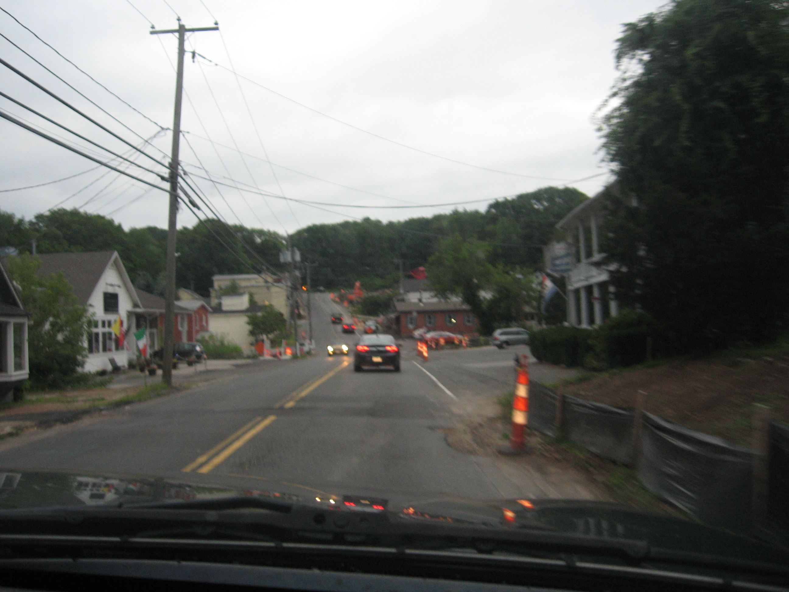 A photo on a gloomy day in the center of Coventry, CT